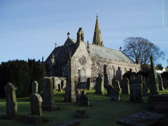 Carnwath Parish Church. This Victorian Parish church includes St Mary's Aisle the only surviving part of the original Collegiate church which dated from the 15th Century. St Mary's Aisle is the small chapel on the left of my photo.